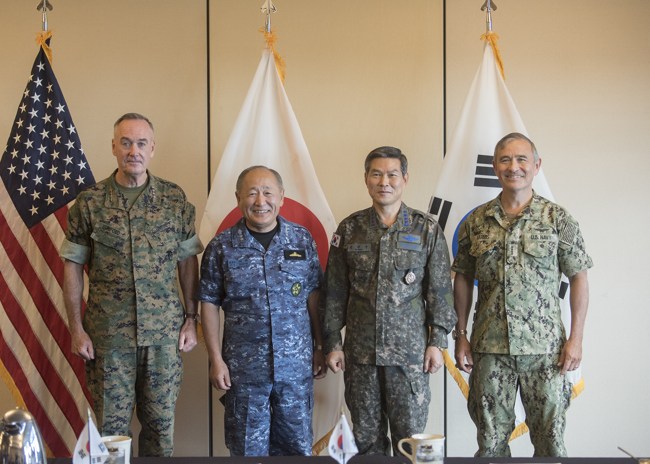 171029-N-PB383-1145 CAMPT SMITH, Hawaii (Oct. 29, 2017)— Left to right, U.S. Chairman of the Joint Chiefs of Staff, Gen. Joseph F. Dunford Jr., Japan Self-Defense Force Chief of Staff, Adm. Katsutoshi Kawano; Republic of Korea (ROK) Chairman of the Joint Chiefs of Staff, Gen. Jeong Kyeong-doo, and Commander, U.S. Pacific Command (USPACOM), Adm. Harry Harris gather for trilateral meeting at USPACOM headquarters. The session was the fifth between the senior most U.S., ROK and Japanese military officers since July, 2014. The leaders discussed multilateral and bilateral initiatives designed to improve interoperability and readiness as well as North Korea’s recent long-range ballistic missile and nuclear tests and agreed to firmly respond to the acts in full coordination with each other. Dunford reaffirmed the ironclad commitment of the U.S. to defend both the ROK and Japan and provide extended deterrence guaranteed by the full spectrum of U.S. military capabilities. (DoD Photo by Navy Petty Officer 1st Class Dominique A. Pineiro)